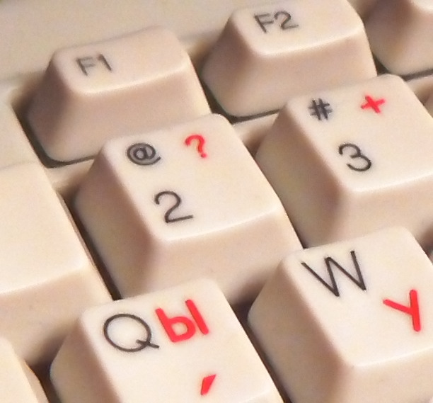 The at sign on the keyboard